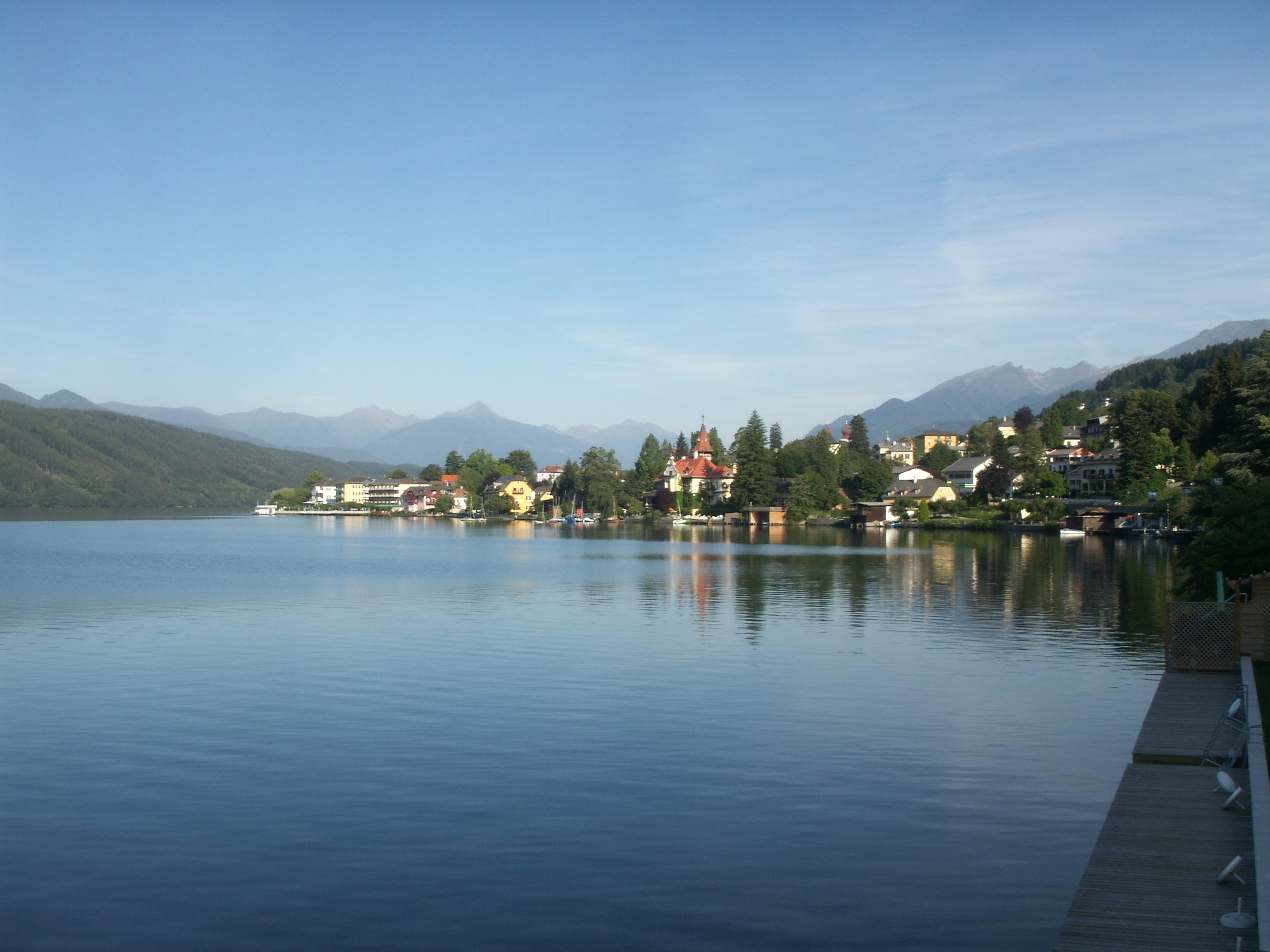 Millstatt at Millstätter See in Carinthia / Austria / EU. Shot from shore in the immediate vicinity of the Millstätter Straße (Bundesstraße B98). The water is very calm. Brief description: water, mornig temper, summer, lake in the alps, Central Europe.